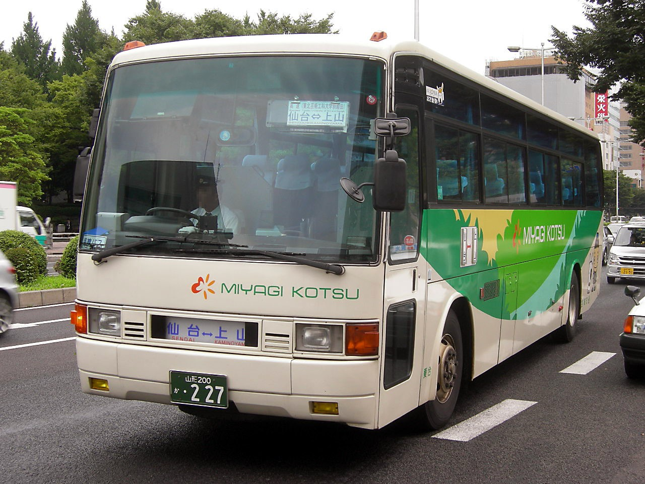 Miyagi kotsu Highwaybus,Sendai-Kaminoyama